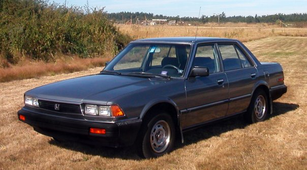 Second Generation Honda Accord, First Series (1982-1983)(C)2007 Nicholas SL Smith, Oak harbor, WA. Nikon D100